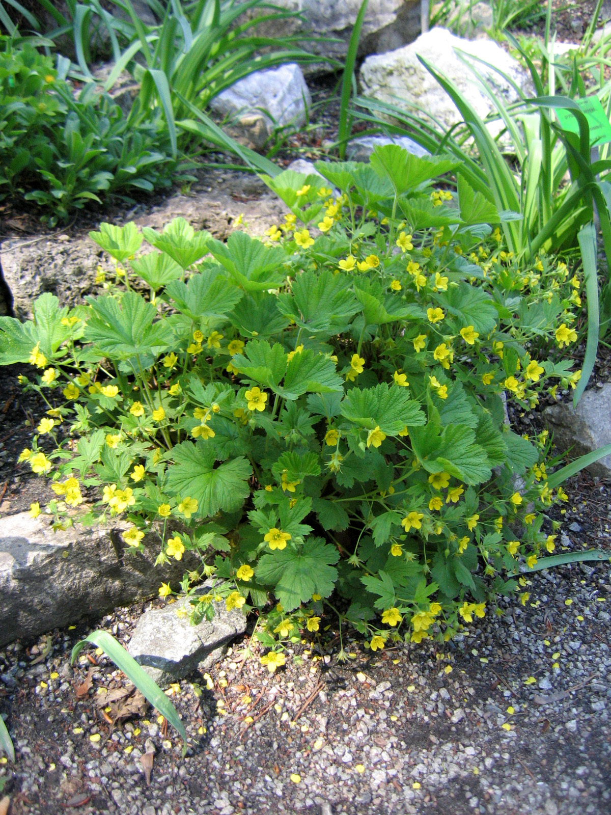 Waldsteinia geoides in flower, plant cultivated in Wrocław University Botanical Garden, Wrocław, Poland.